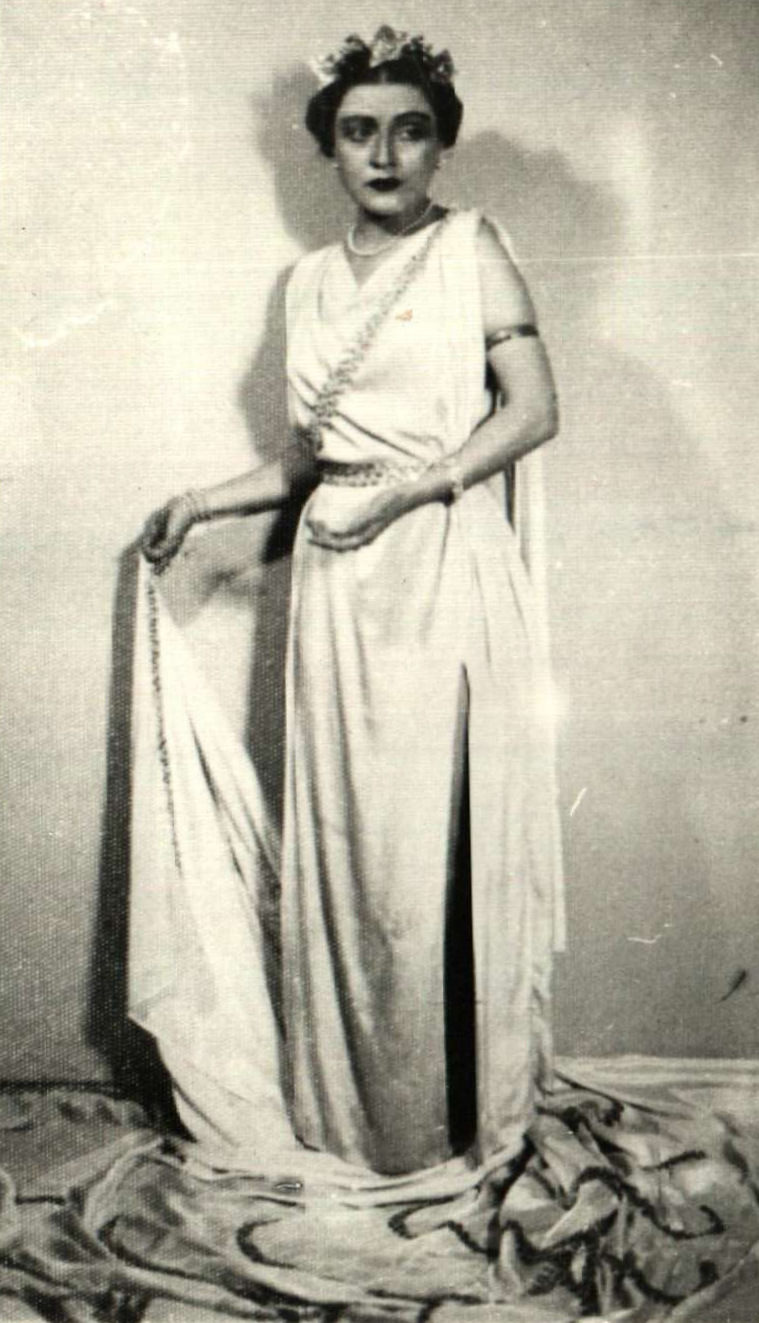 Bulgarian opera vocalist Neli Karova in the opera Thaïs from Jules Massenet.